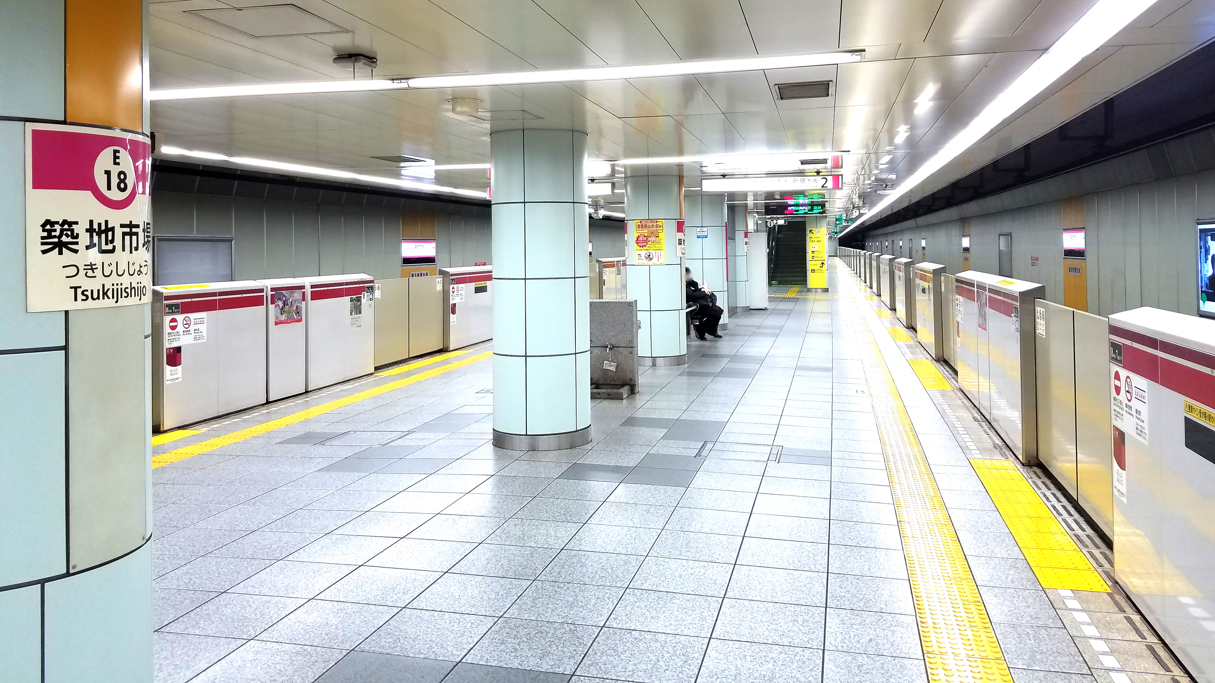 The platform at Tsukijishijō Station on the Toei Ōedo Line in Chūō city, Tokyo, Japan